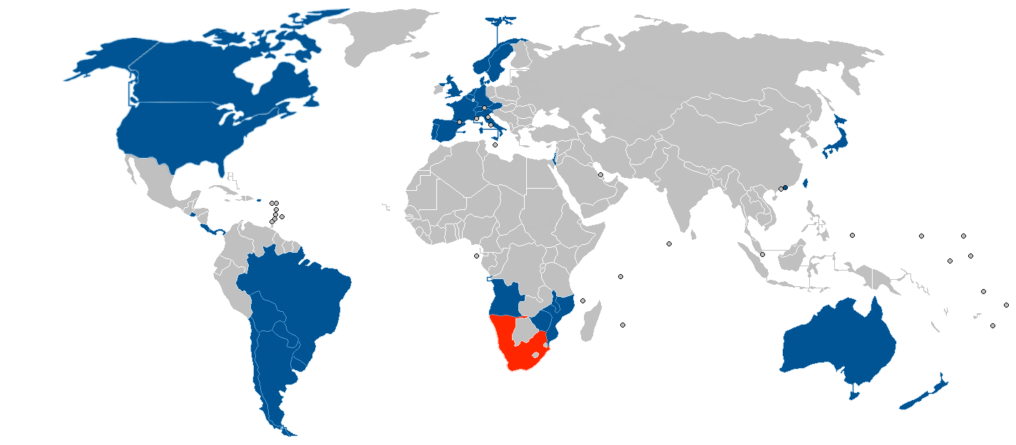 Map of South African diplomatic missions in 1974